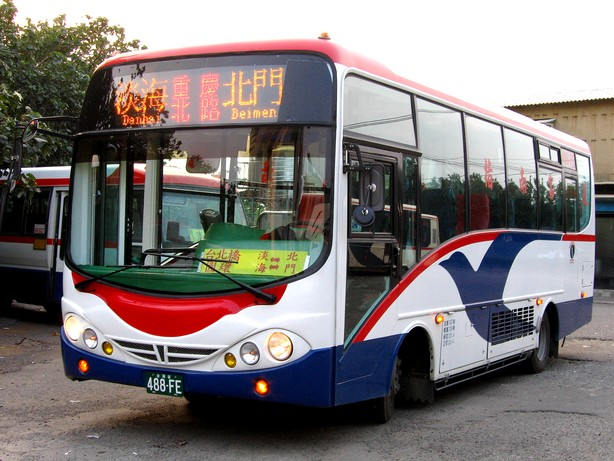 Isuzu NQR test bus 488-FE is currently operated by Chih-nan Bus.